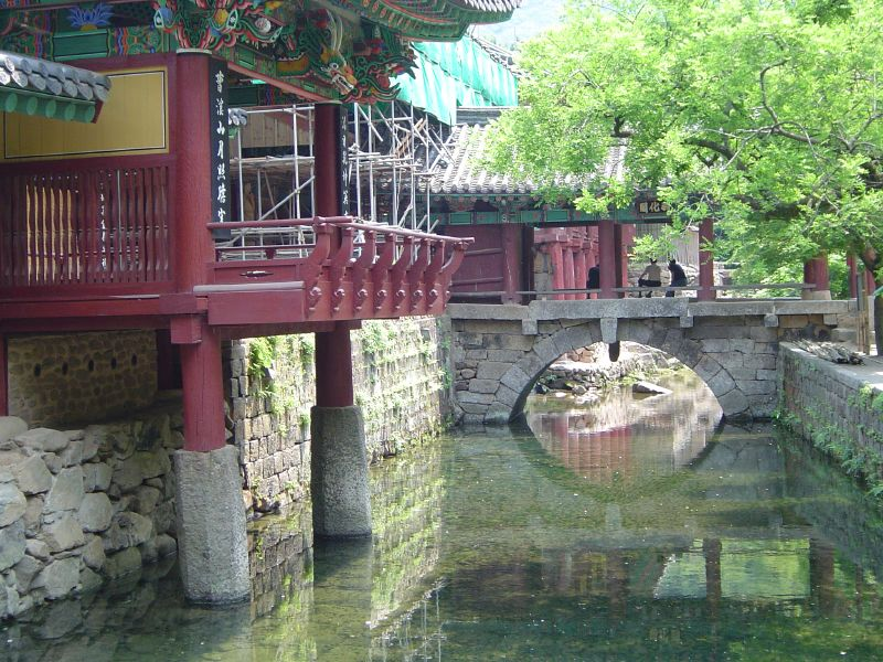 The entrance of Songgwangsa, one of the most important Seon Buddhist monasteries in Korea and located in Jogyesan in Songgwang-myeon, Suncheon, Jeollanam-do, South Korea. This picture were taken in May 2004. Lanterns decorating for celebrating Buddha's birthday.